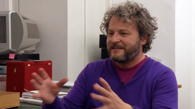 German sculptor Tobias Rehberger. Still image from the 2010 documentary "The Future of Art" by Erik Niedling and Ingo Niermann.